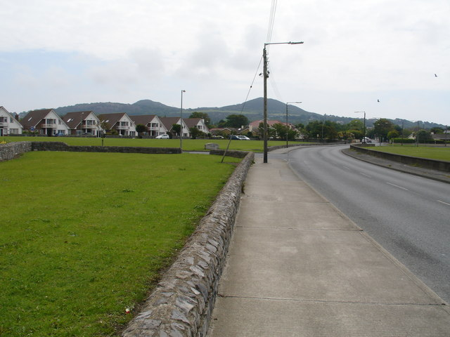 Howth Housing These detached houses won't have to worry about anyone spoiling their view, as they look on to 'Bull Island' which is part of Dublin Bay. Howth Summit can be seen in the background.